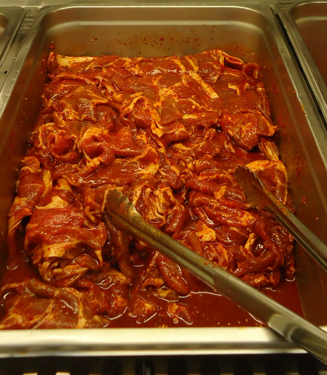 Marinated pork sliced butt as seen in an Asian supermarket in New Jersey.